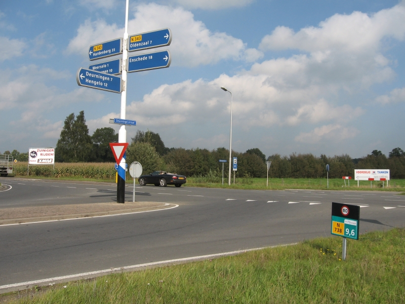 Dutch Provincial road 738 near Weerselo